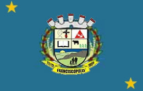 Flags of the city of Franciscópolis, Minas Gerais, Brazil.